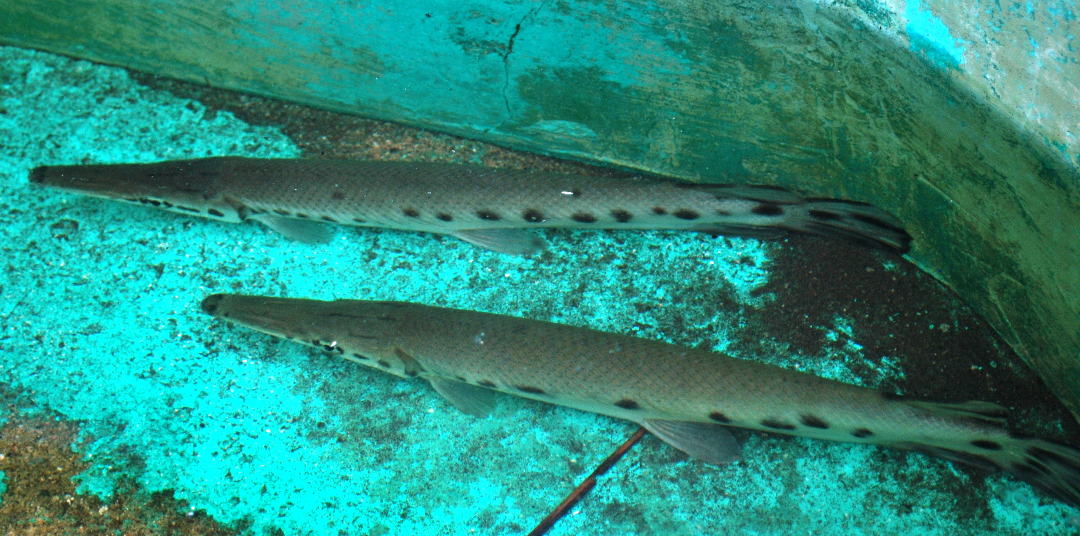 pejelagarto fish at the he Puerto Arista and alligatory sanctuary in Chiapas